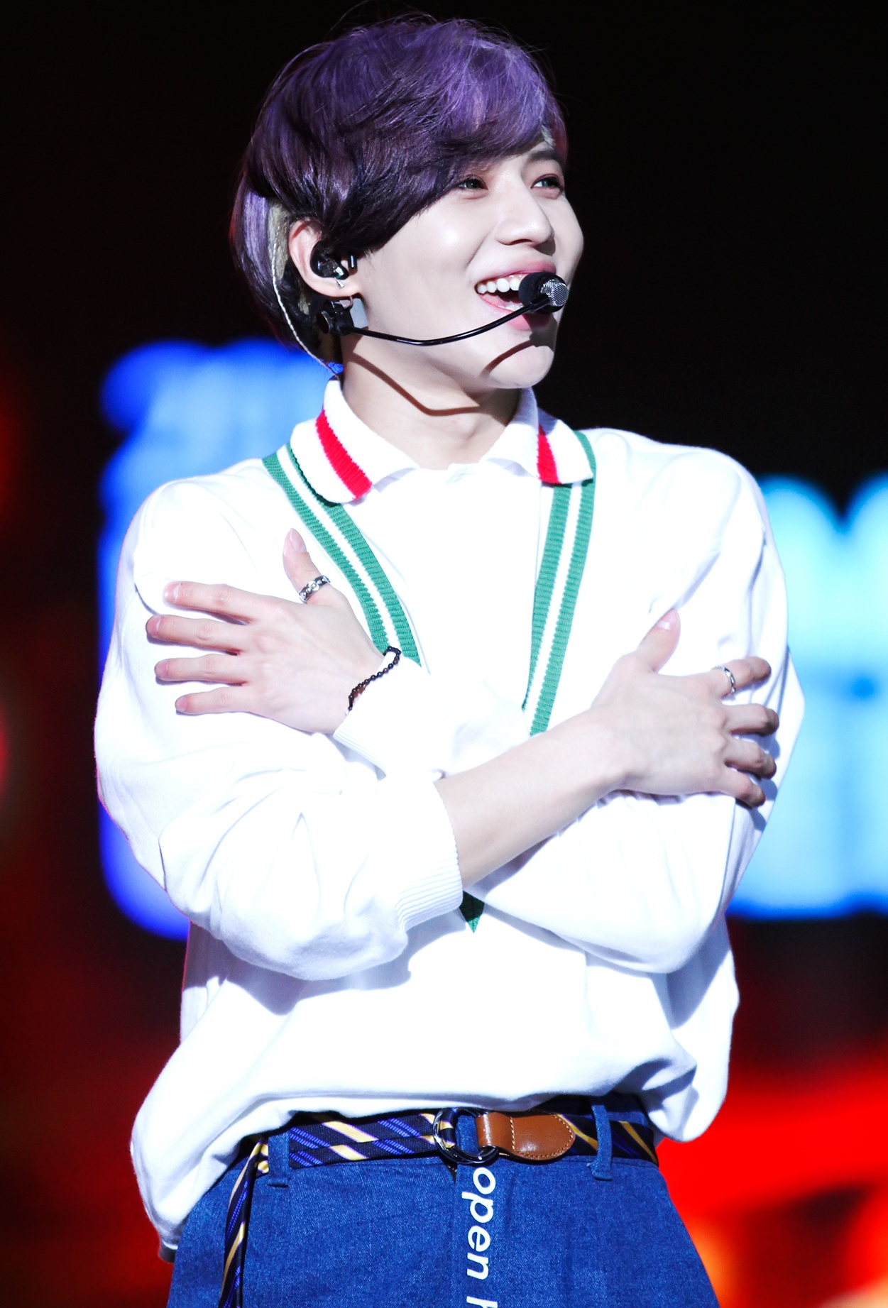 Taemin at Dream Concert on May 23, 2015.